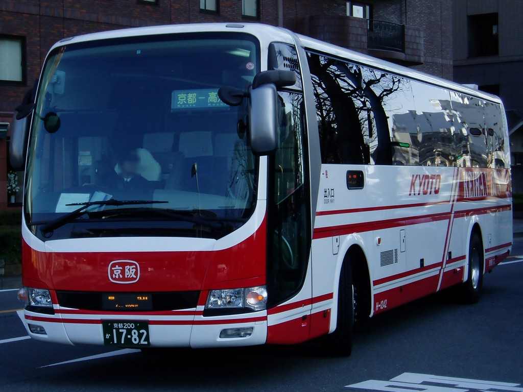 Mitsubishi Fuso Aero Ace Use for Keihanbus Kyoto-Kochi line